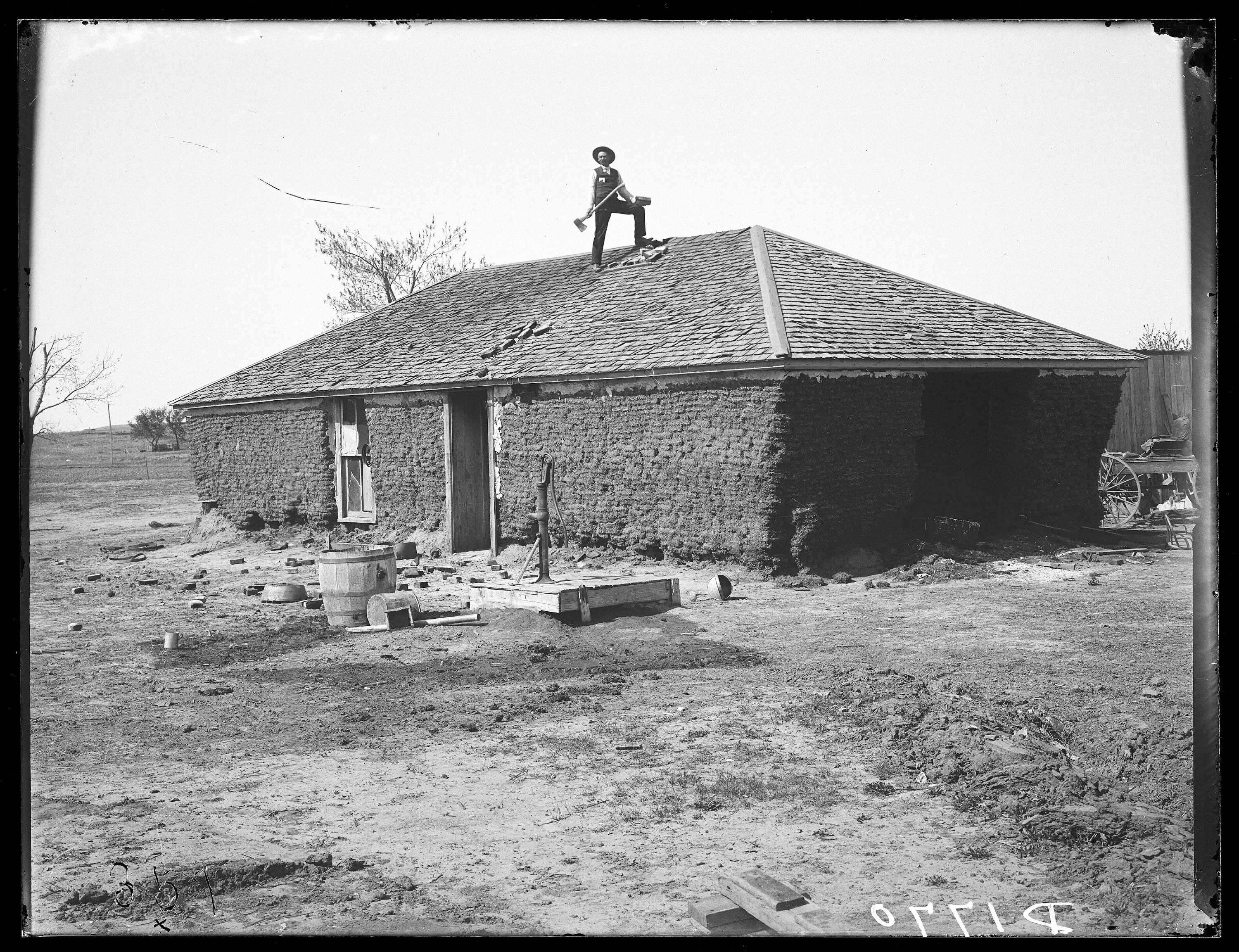 Photograph by Solomon D. Butcher, showing "old Reyner sod house" in Custer County, Nebraska. Photograph taken 1904; published in Butcher's "Sod Houses, or the Development of the Great American Plains", 1904, p. 18.